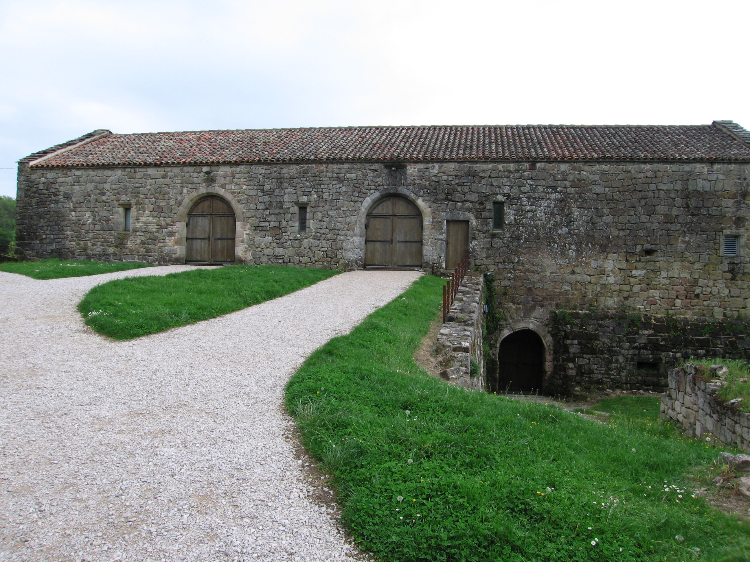 Farm in the castle of Vaour, Tarn, France